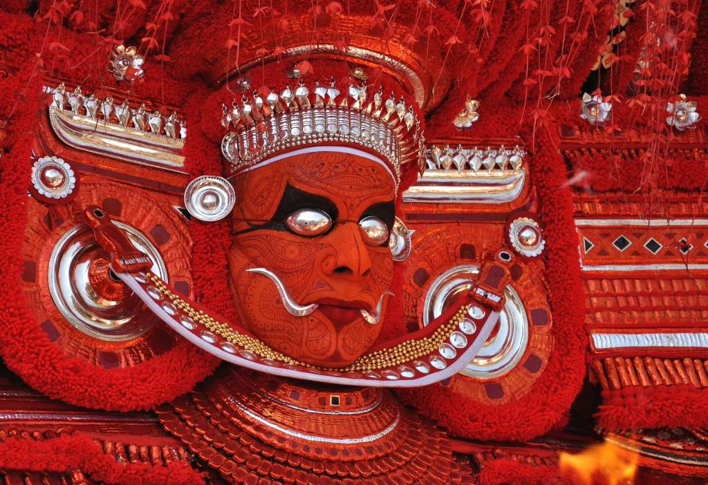 Theyyam of Muchilottu Bhagavathi from Kaliyattam performed at Valapattanam Muchilottu Kaavu, Kannur.